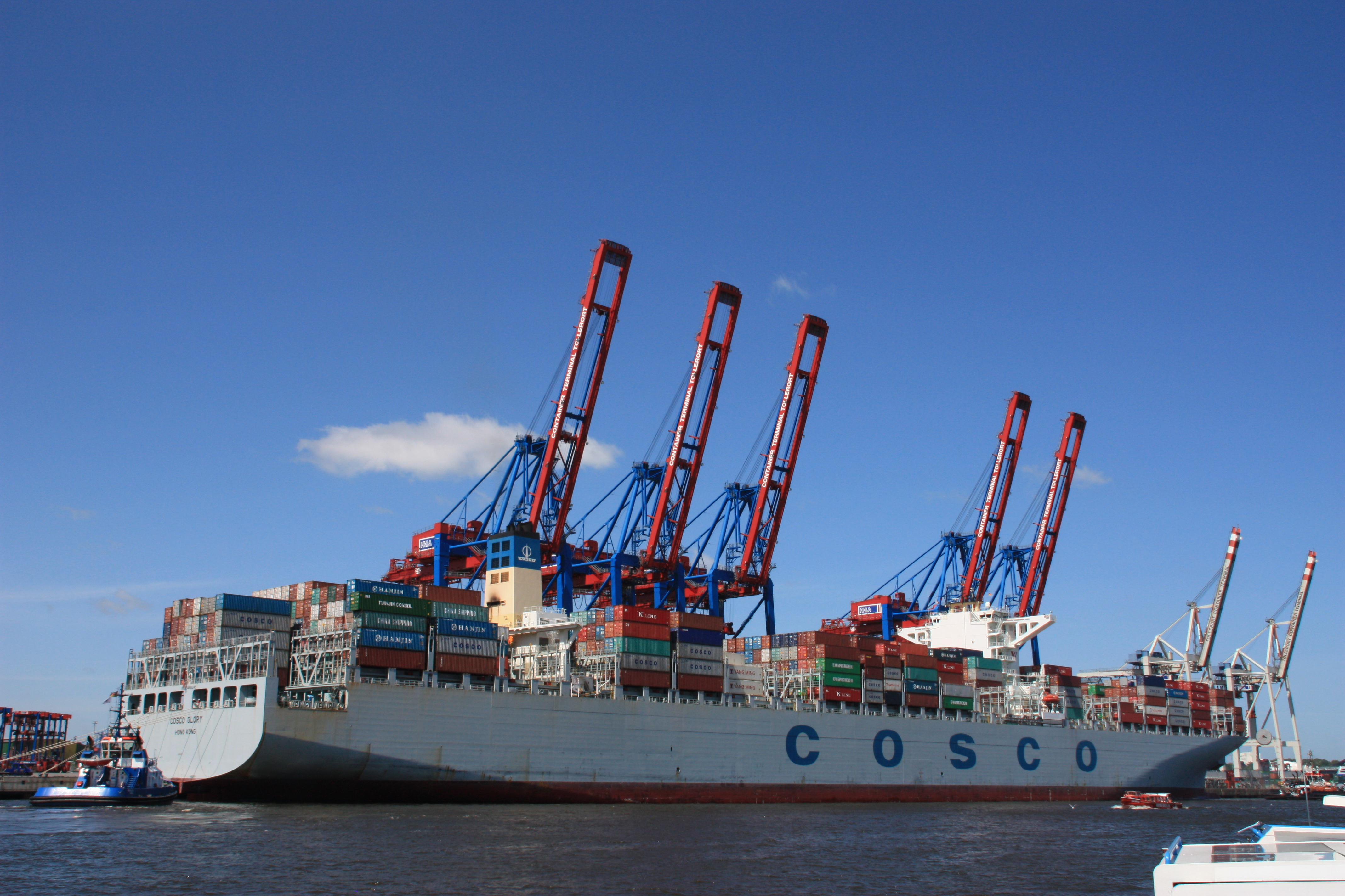 COSCO Glory just prior to departure from the port of Hamburg.